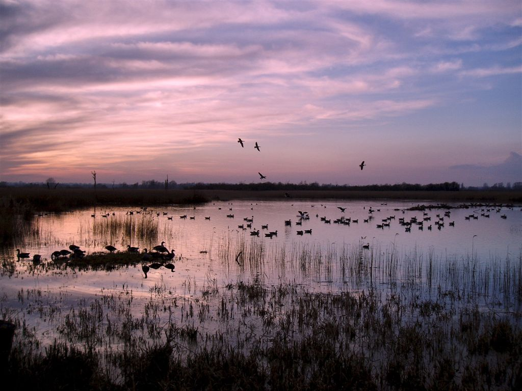 Taken at RSPB Strumpshaw Fen showing the view from the Brick Hide. The birds in the picture are mostly Greylag Goose (Anser anser) coming in to land for the evening.